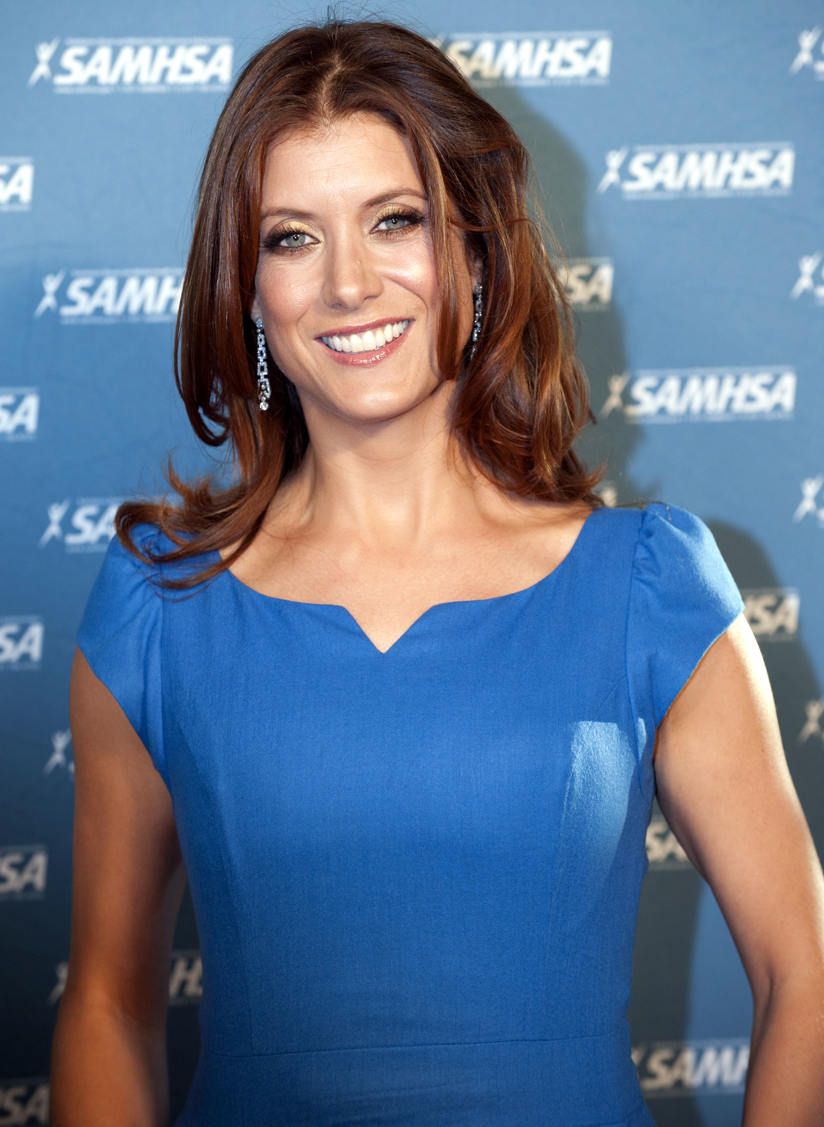 Kate Walsh at the 2011 Voice Awards.